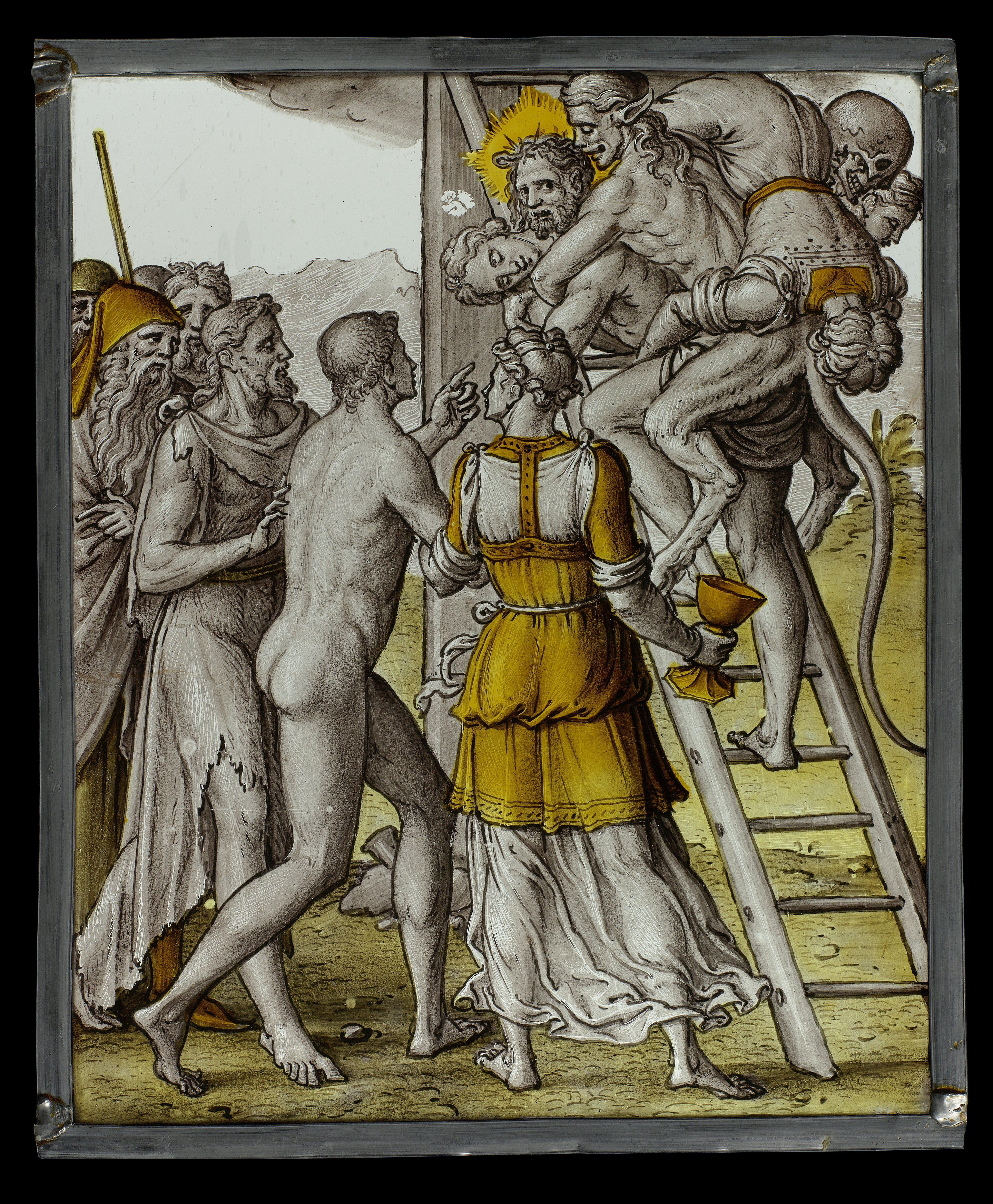 Allegory of Christ as the savior of humanity